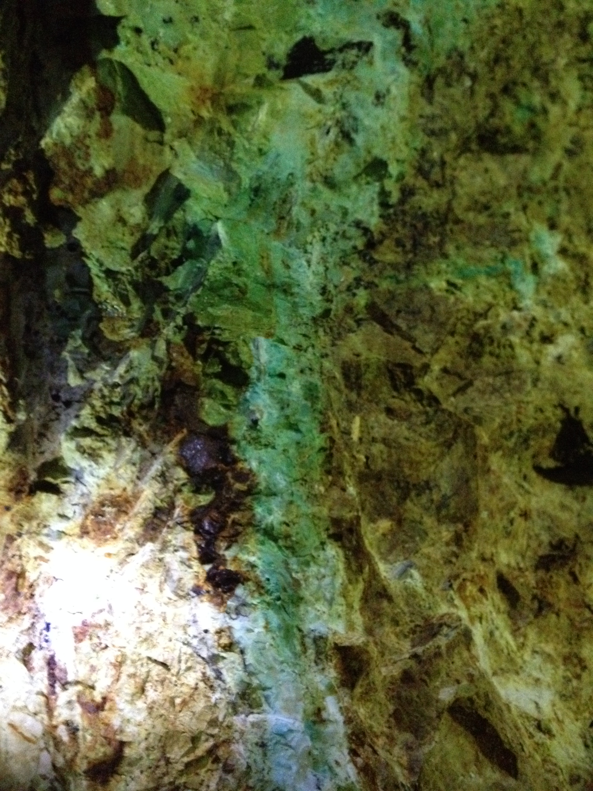 Vein of turquoise in Ungurli-kan